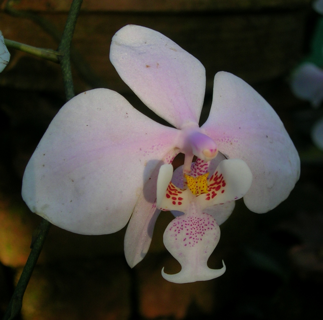 Phalaenopsis schilleriana, cultivated